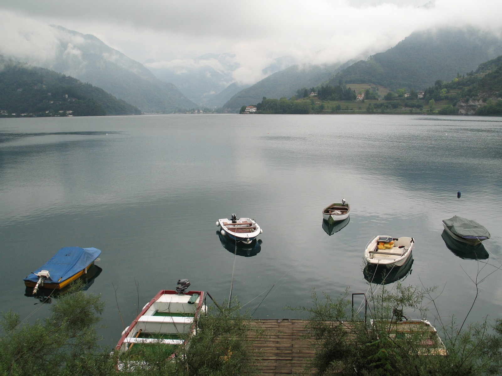 Lake Ledro in Trentino, Italy.